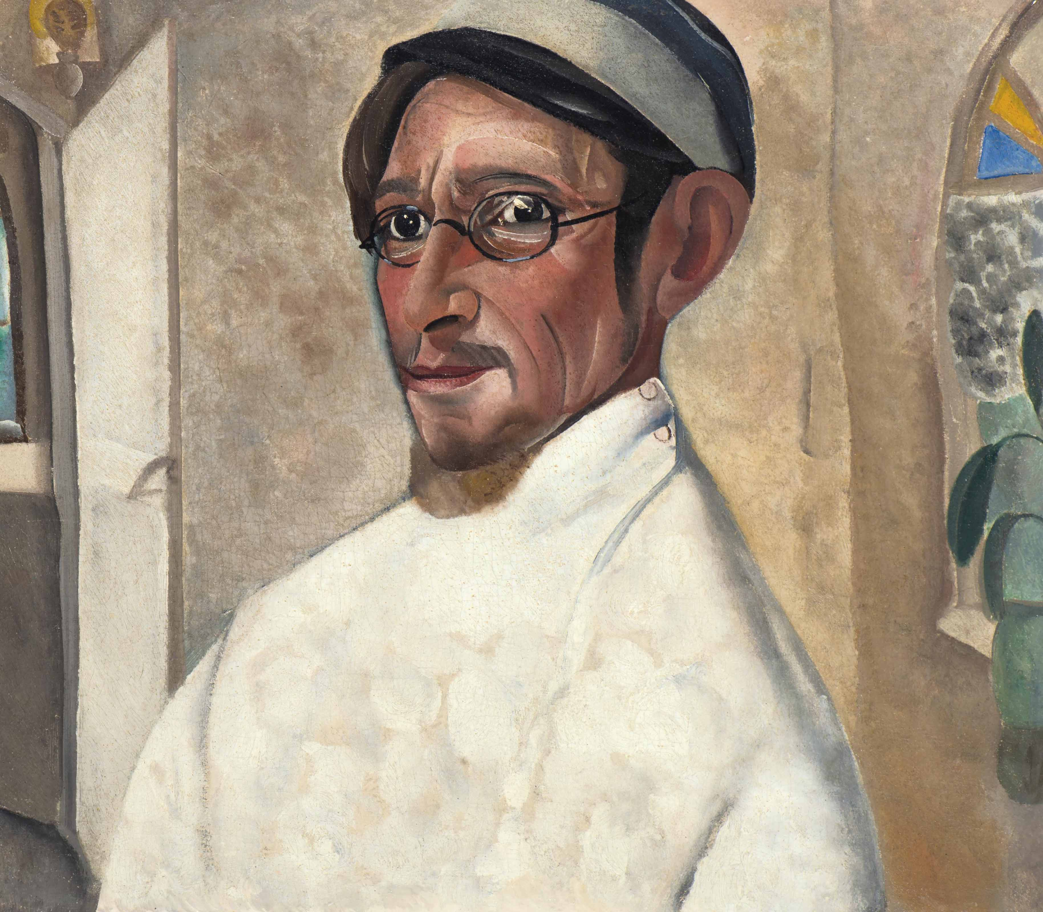 Портрет Николая Подгорного в роли Петра Трофимова (Вишневый сад) Boris Grigoriev (1886-1939) Portrait of the actor Nikolai Podgorny as Peter Trofimov in 'The Cherry Orchard' by Anton Chekov oil on canvas 23¾ x 28¾ in. (60.3 x 72.8 cm.) Painted in 1923